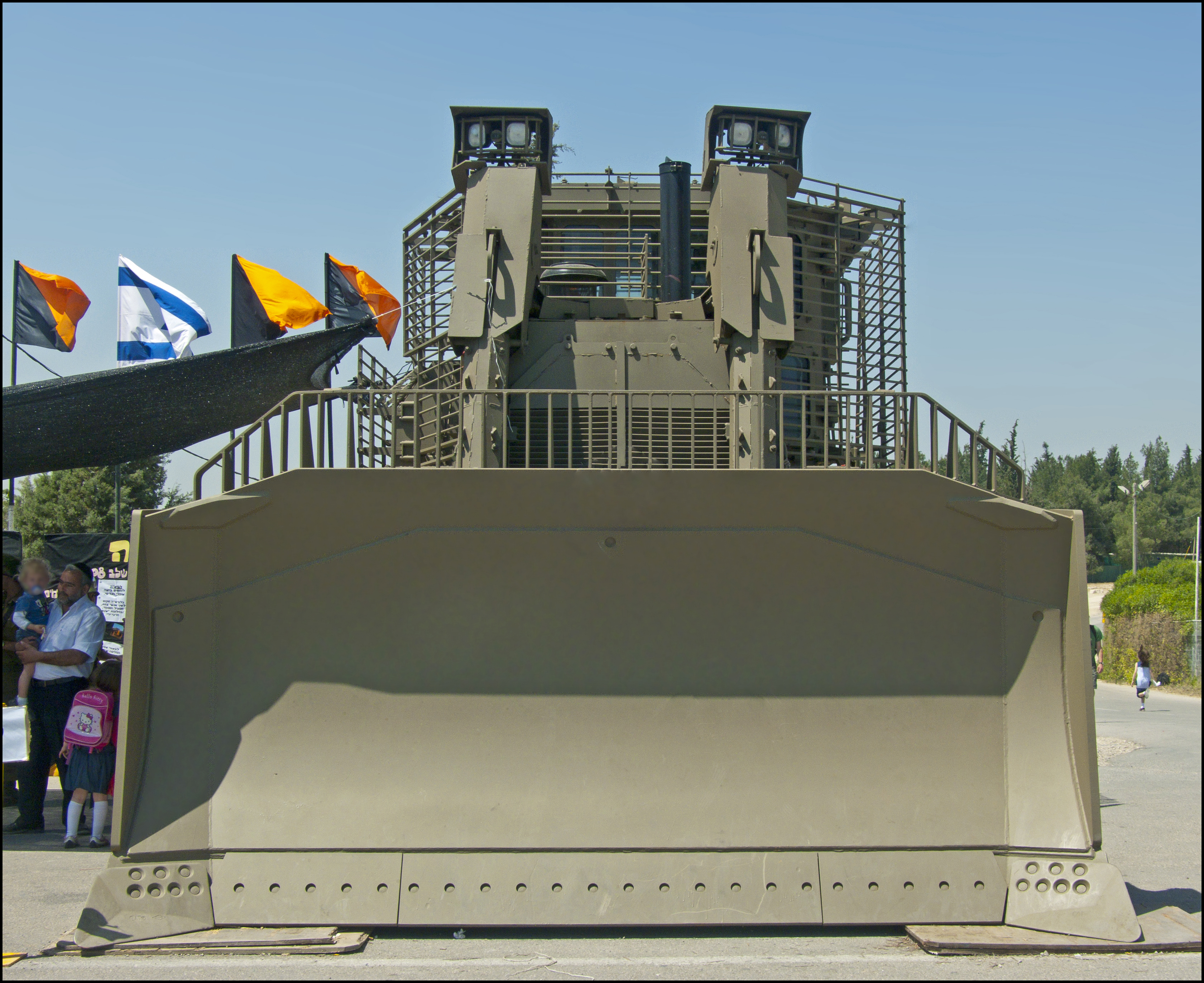 IDF Caterpillar D9 armored bulldozer, Yad LaShiryon Memorial